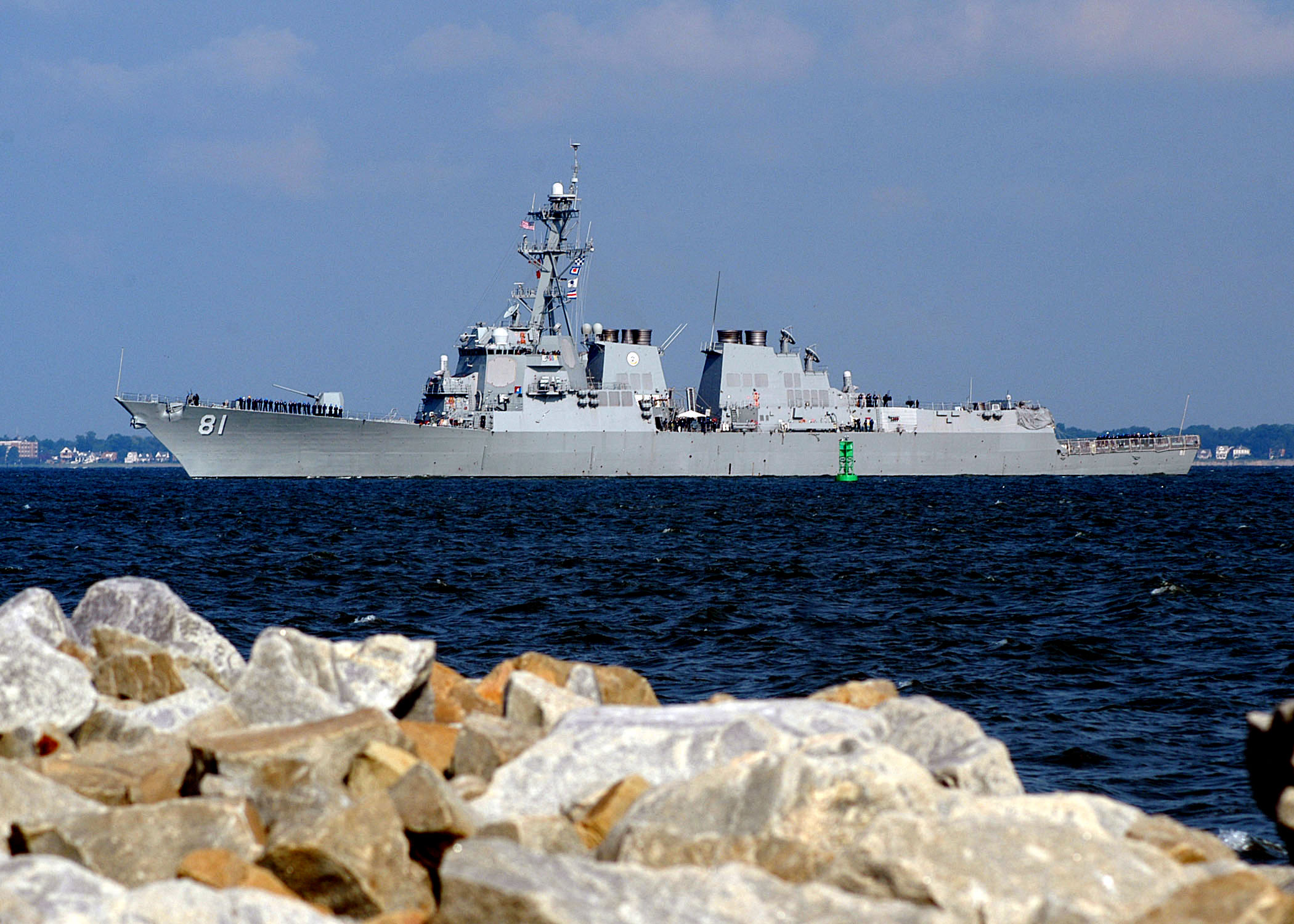 Norfolk, Va. (Aug. 24, 2005) – The guided missile destroyer USS Winston S. Churchill (DDG 81) returns to Naval Station Norfolk following a collision with the guided missile destroyer USS McFaul (DDG 74). The two ships collided Aug. 22 while conducting exercises off the coast of Jacksonville, Fla. Both ships experienced minor damage and no injuries. U.S. Navy photo by Photographer’s Mate 1st Class Gregory A Roberts (RELEASED)